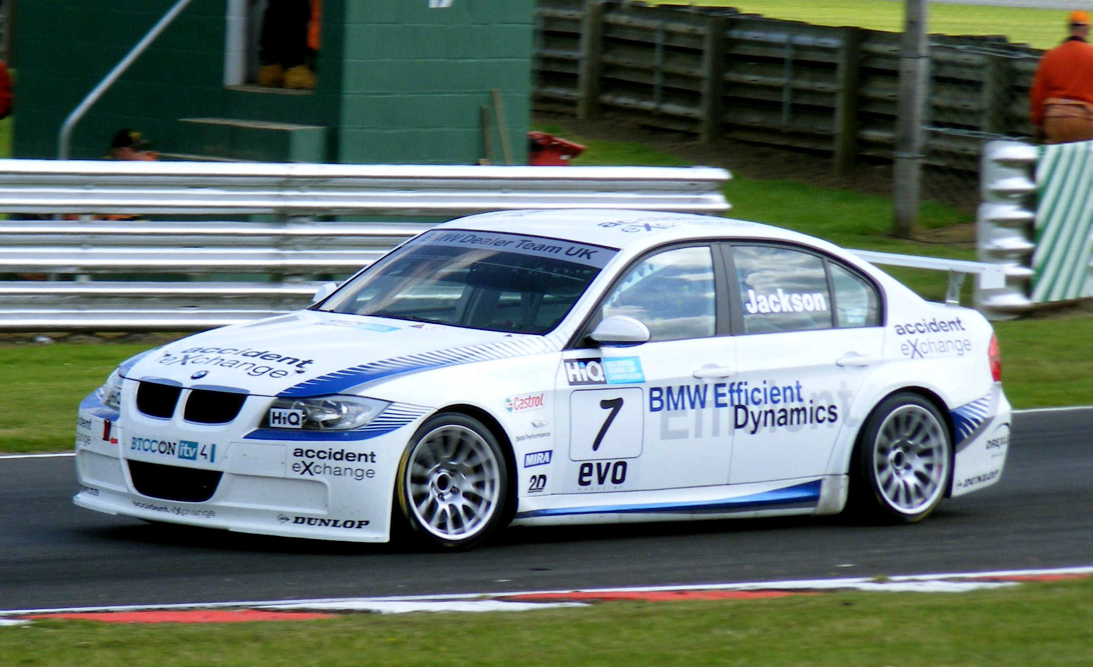 Mat Jackson exiting Knickerbrook at Oulton Park during the BTCC qualifying session.